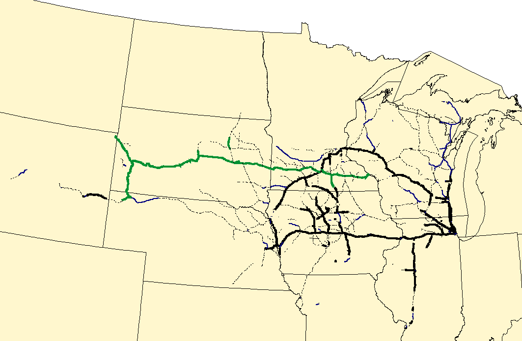 Map of the Chicago and North Western Railway. Black lines are trackage now owned by Union Pacific; green lines were owned by the Dakota, Minnesota and Eastern Railroad; blue lines are owned by other railroads; dotted lines are abandoned. Created with Quantum GIS with data from the National Transportation Atlas Database.